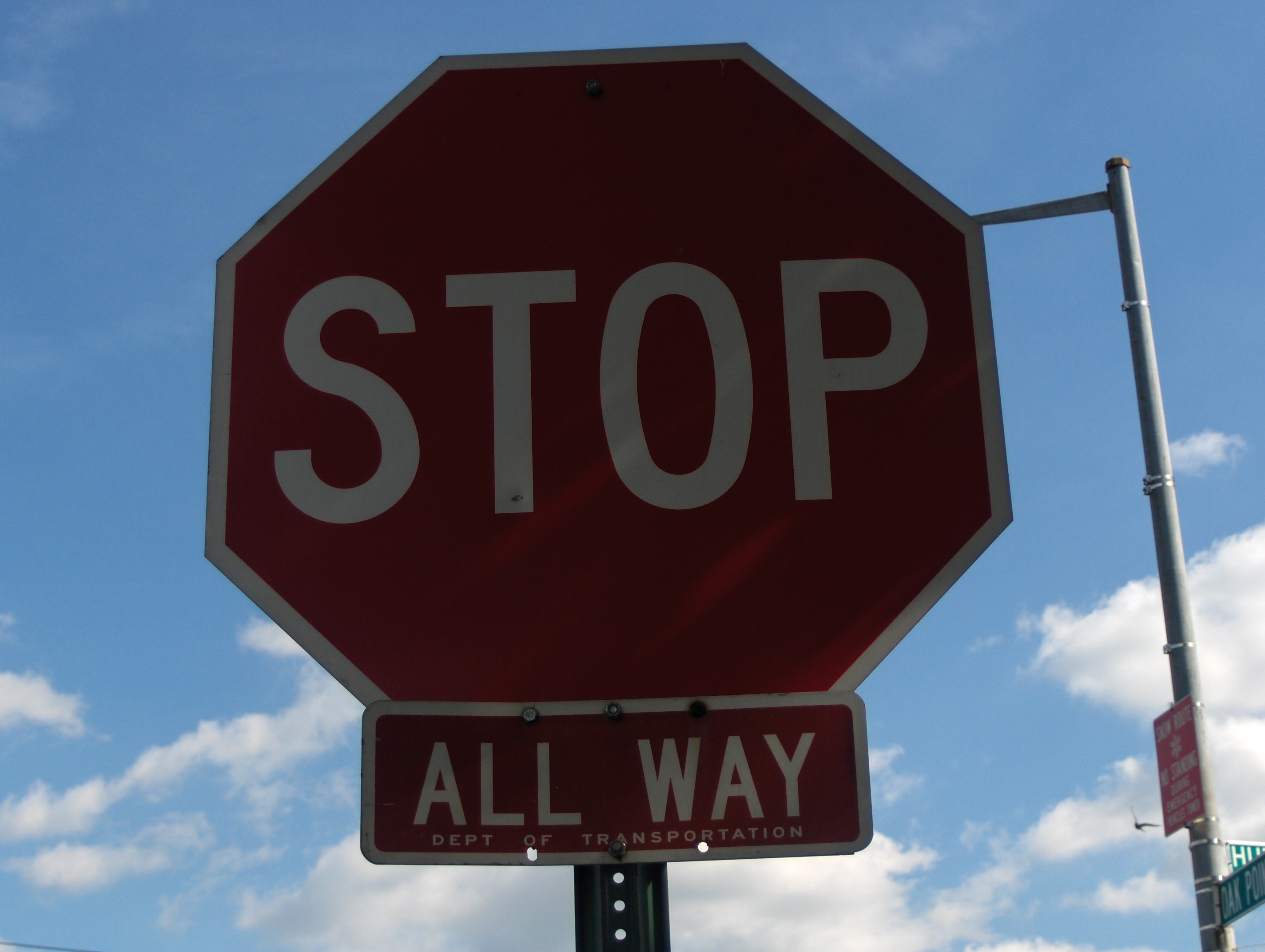 Stop Sign in The Hunts Point Area of The Bronx